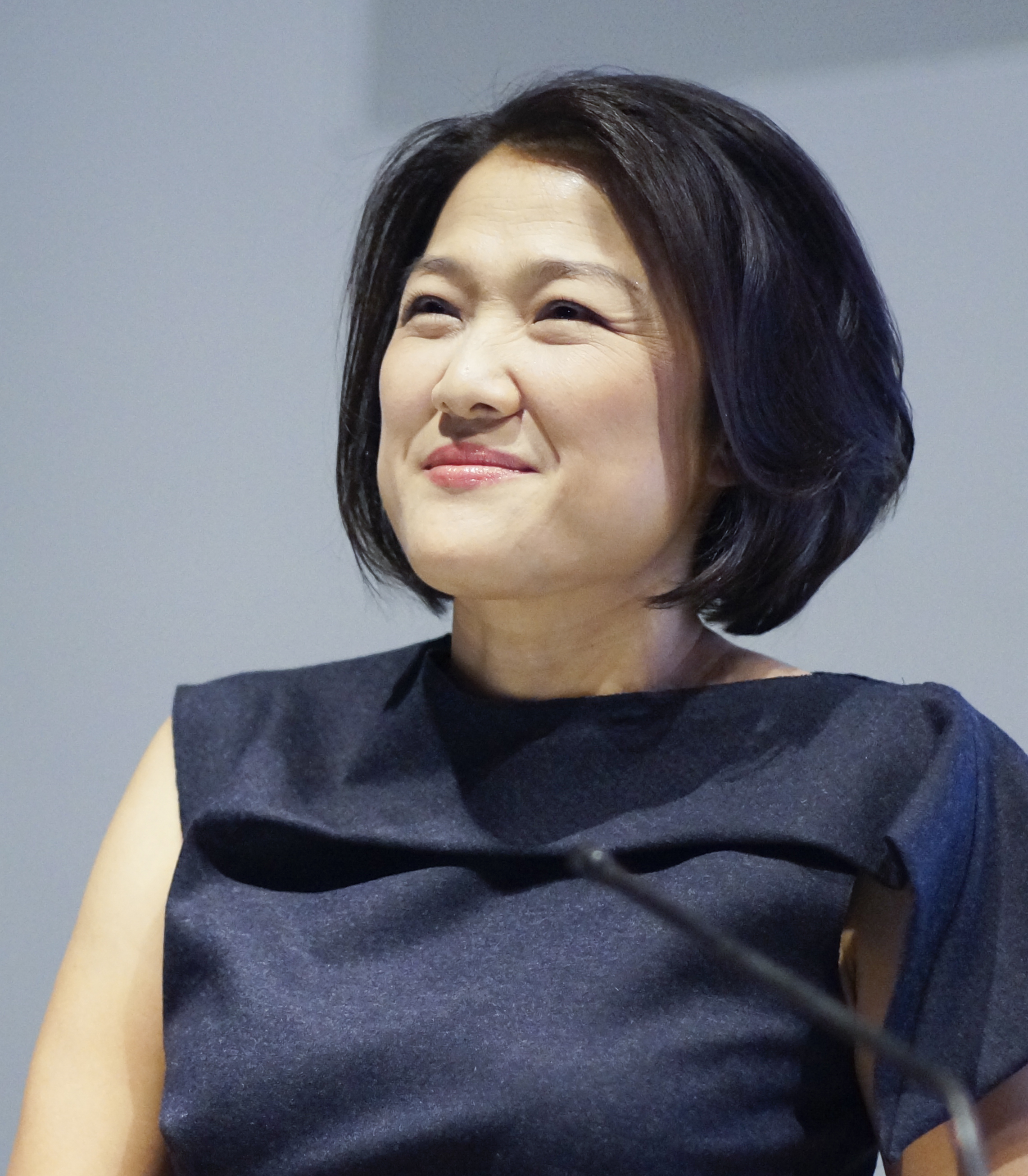 Lecture by Zhang Xin